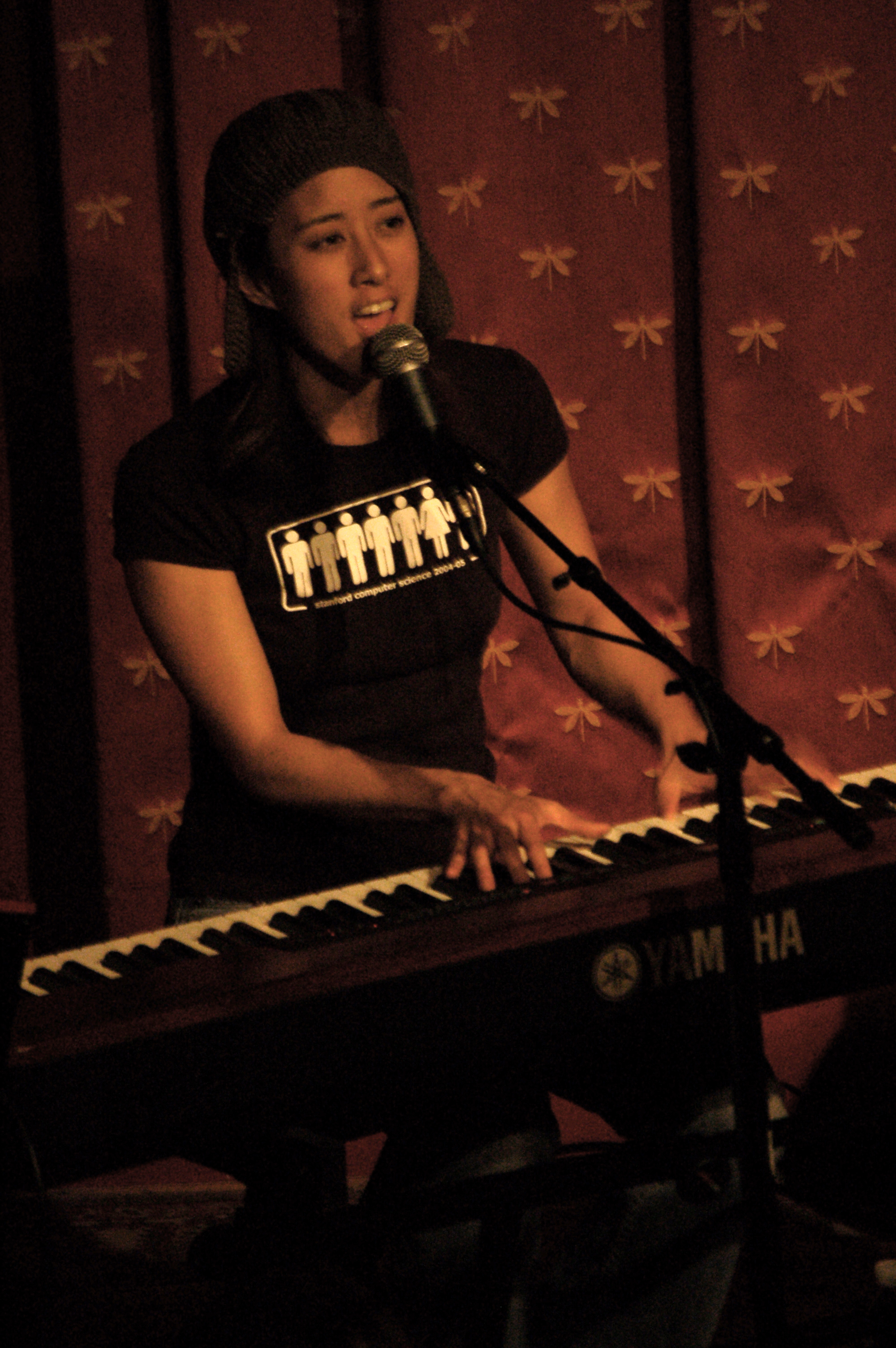 Vienna Teng performing in Portland, Oregon's Mississippi Studios on her Green Caravan tour.